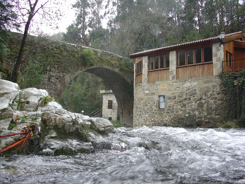 Mourentán´s Bridge, Arbo (Spain)